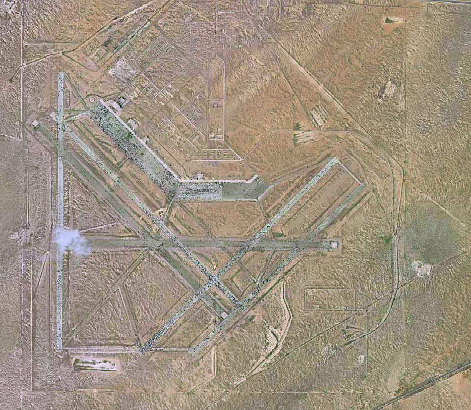 USGS digital orthophoto of Marfa Army Airfield in Texas